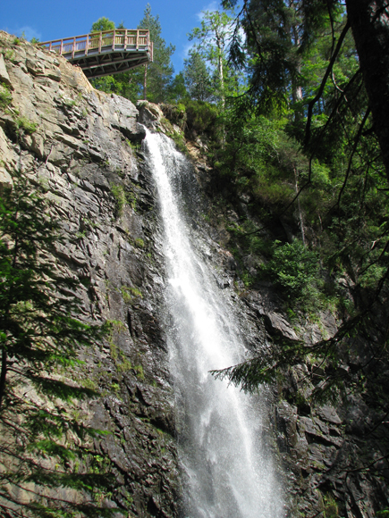 Falls of Plodda on the Allt na Bodachan New cantilever viewing platform offers magnificent views. Good work by the Forestry Commission